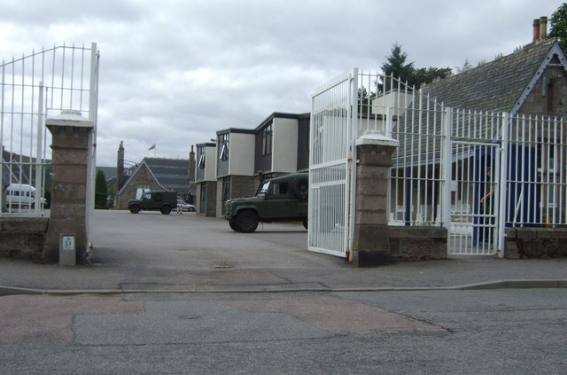 Ballater Barracks A row of Elizabethan cottages converted to barracks in 1869.